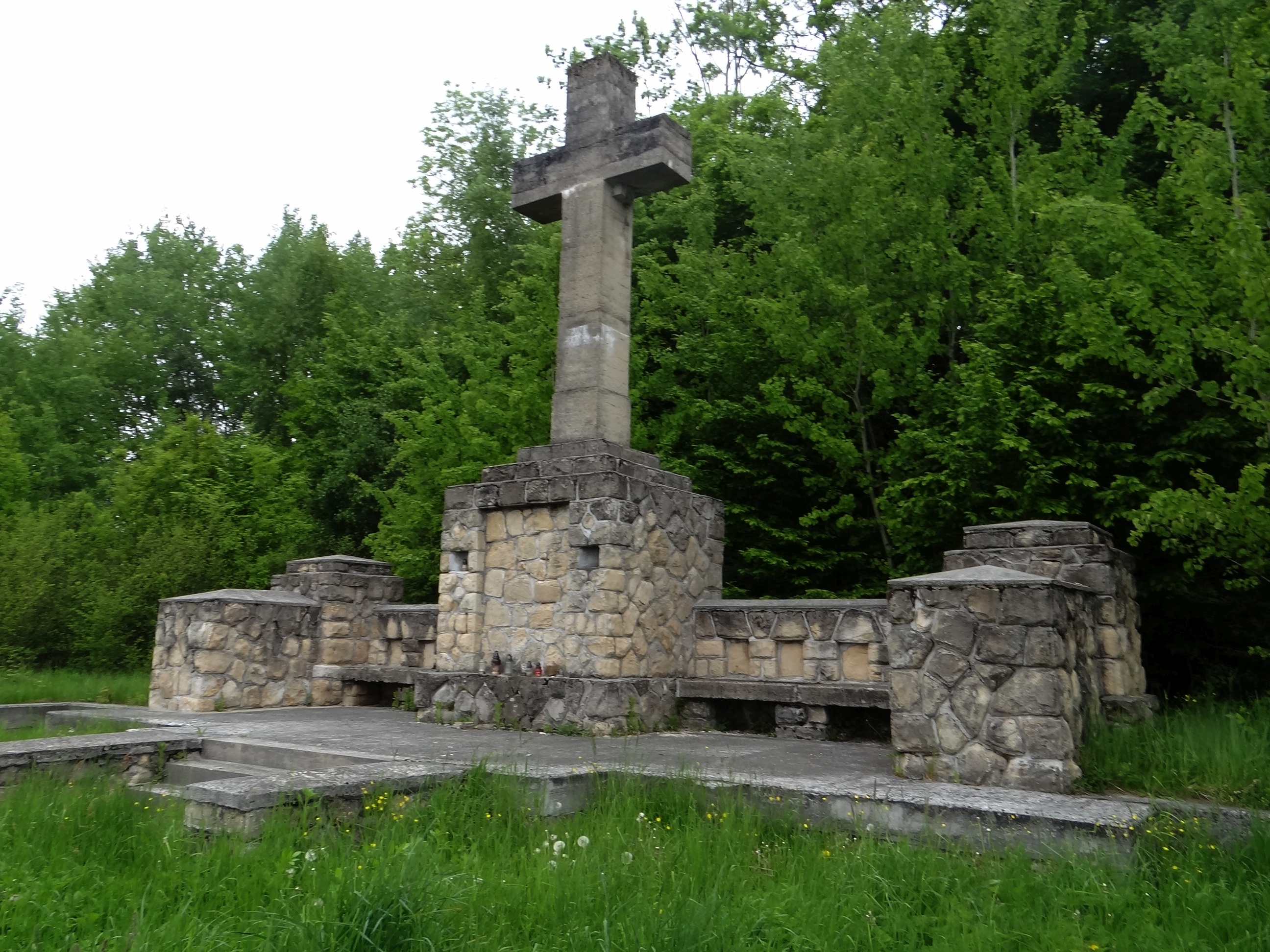 World War I Cemetery nr 136 - Zborowice